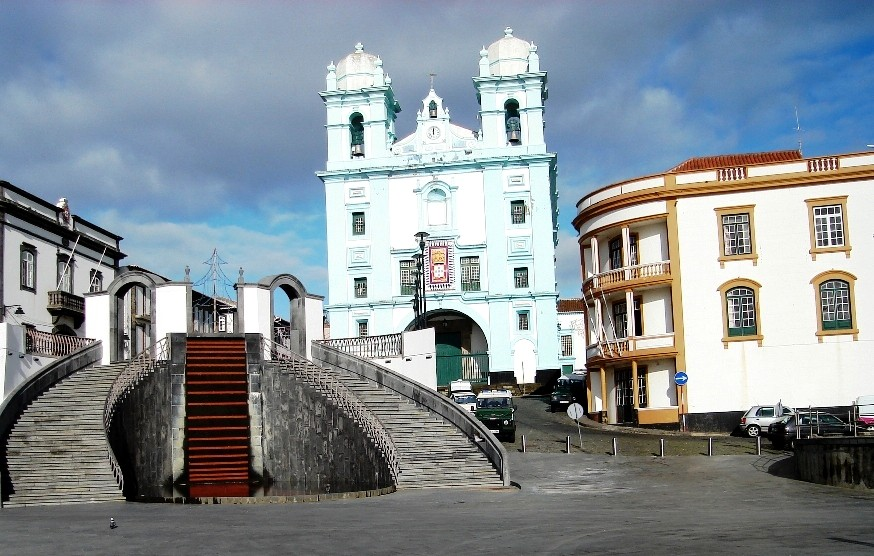 Portas de entrada de Angra do Heroísmo com o Destacamento Fiscal no Lado direito.